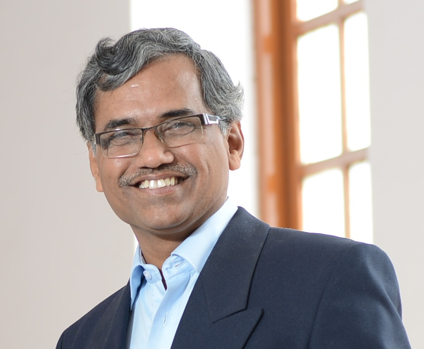 I engaged a professional photographer on payment to take this photograph.